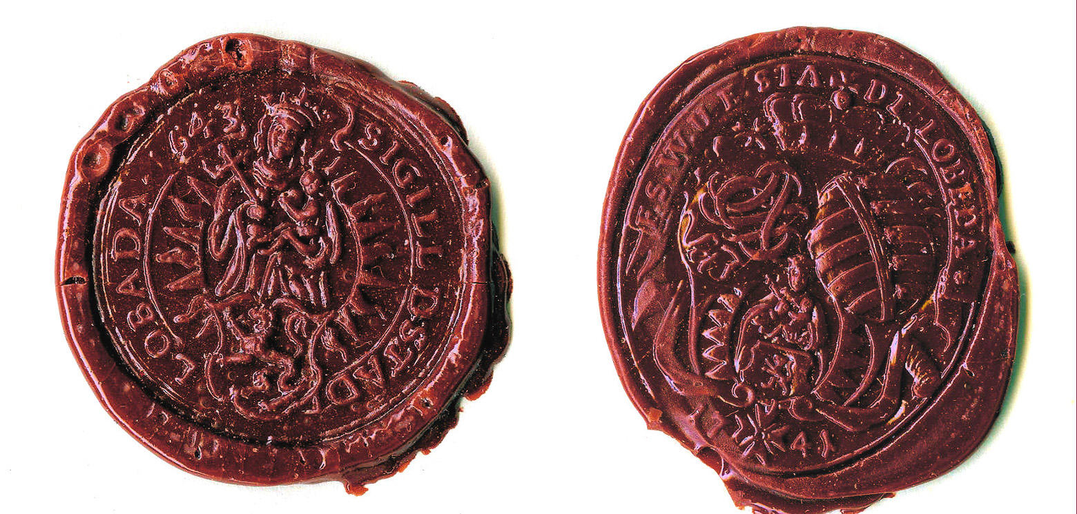 City of Lobeda: seals replica of 1643 and 1741